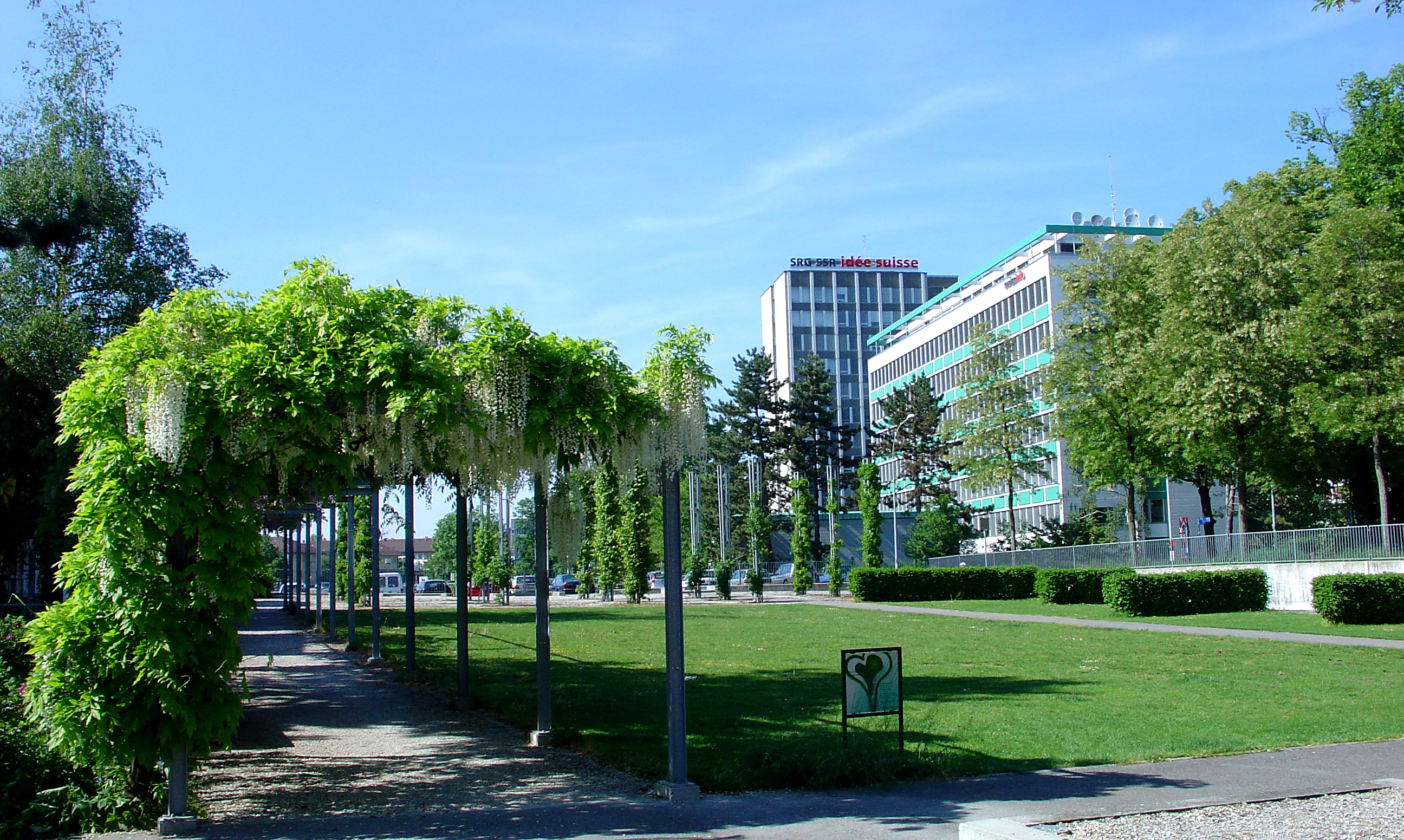 The View on the swissinfo main building